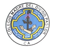 Emblem for the Congregations of Sisters Capucine of the Divine Shepherd's Mother (Capuchinas de la Madre del Divino Pastor), from a colour printed card, ca. 1900